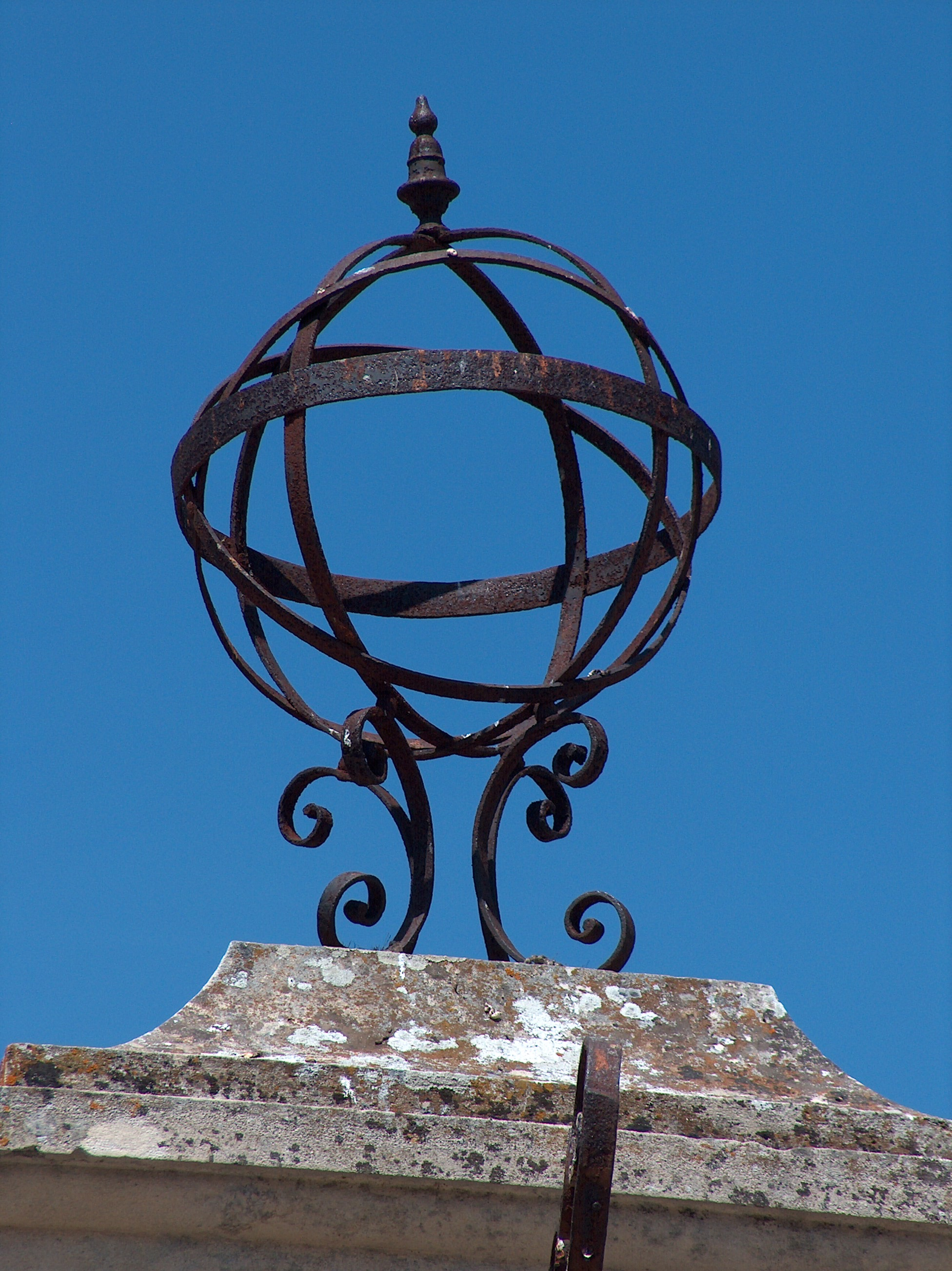 Pillory in Constância, Portugal.